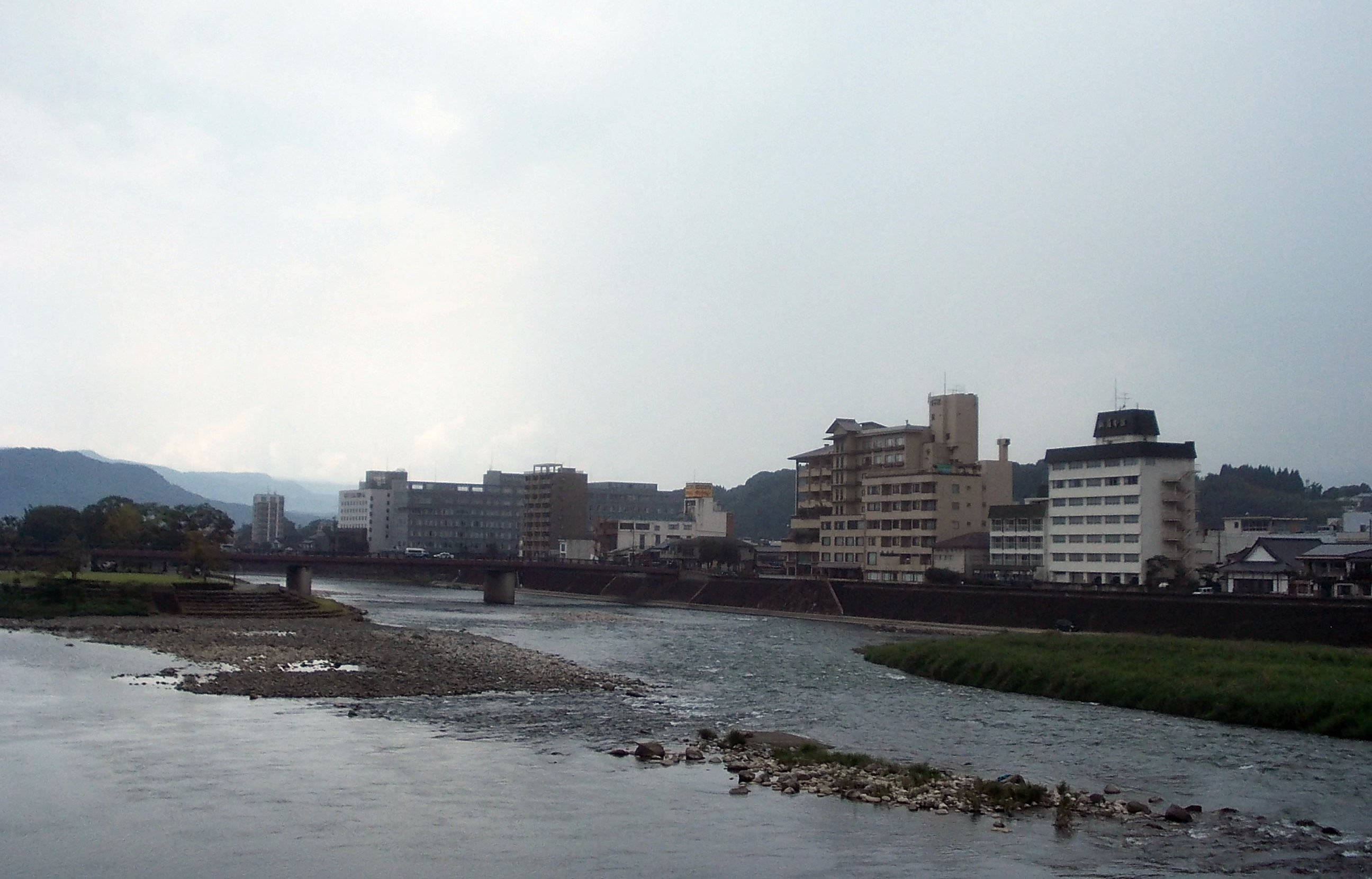 Kuma River running through Hitoyoshi city: Hitoyoshi Onsen hotsprings in the center picture, and there is an area in foreground made by a sandbank. It has been developed over the years, and become a parking for visitors now.